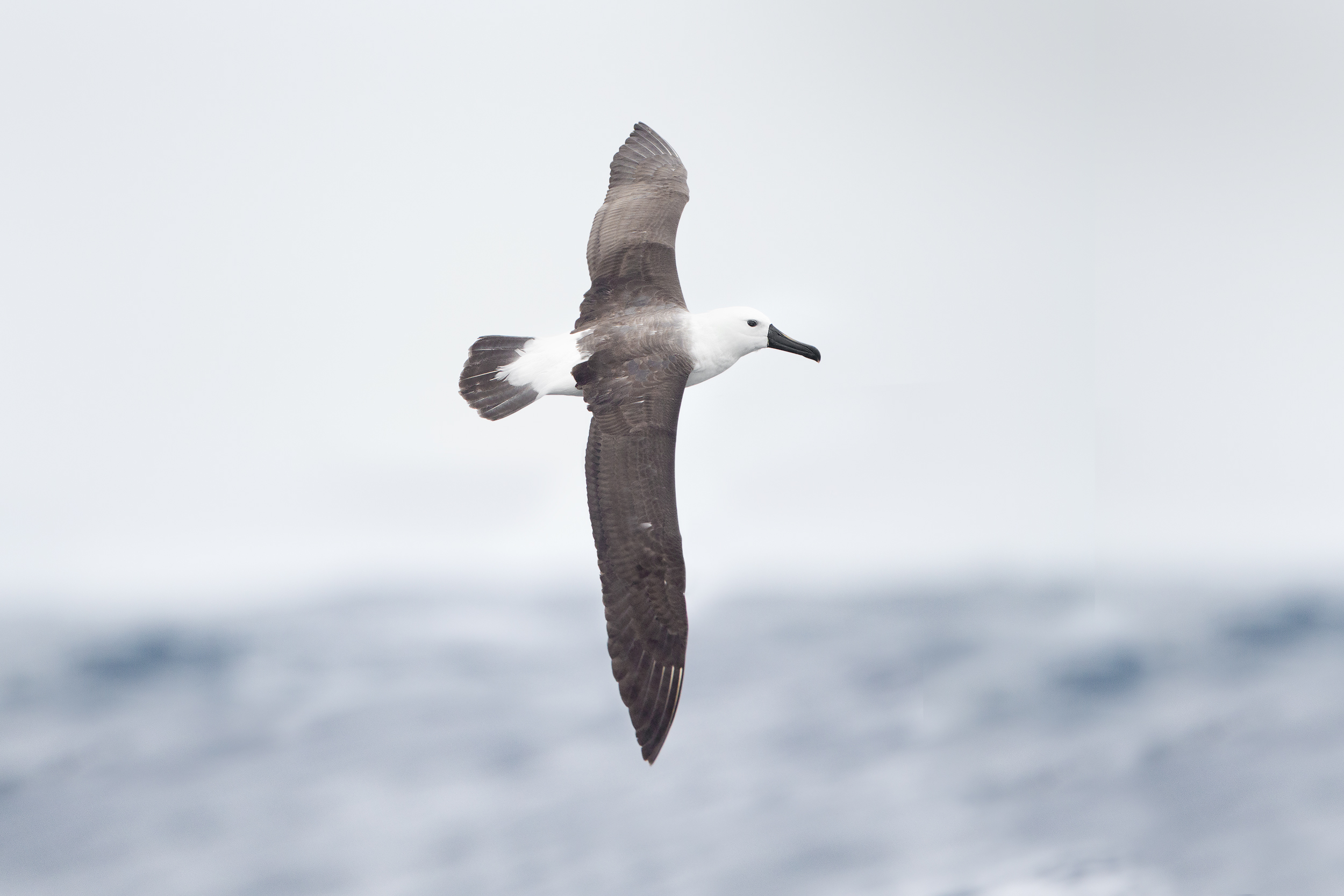 Yellow-nosed Albatross (Thalassarche chlororhynchos) immature, East of the Tasman Peninsula, Tasmania, Australia